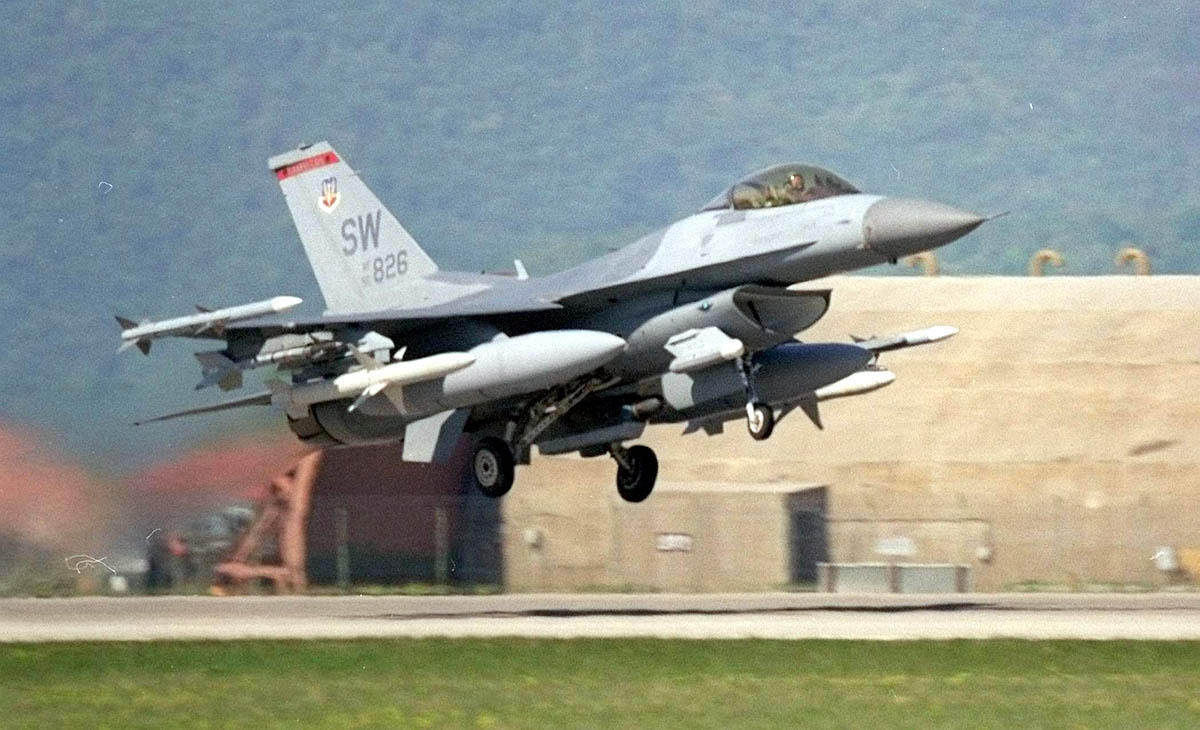 AVIANO AIR BASE, Italy - An F-16 Fighting Falcon from Shaw Air Force Base, S.C., takes off from here. The F-16 is one of more than 170 aircraft deployed to Italy in support of NATO's Operation Allied Force.